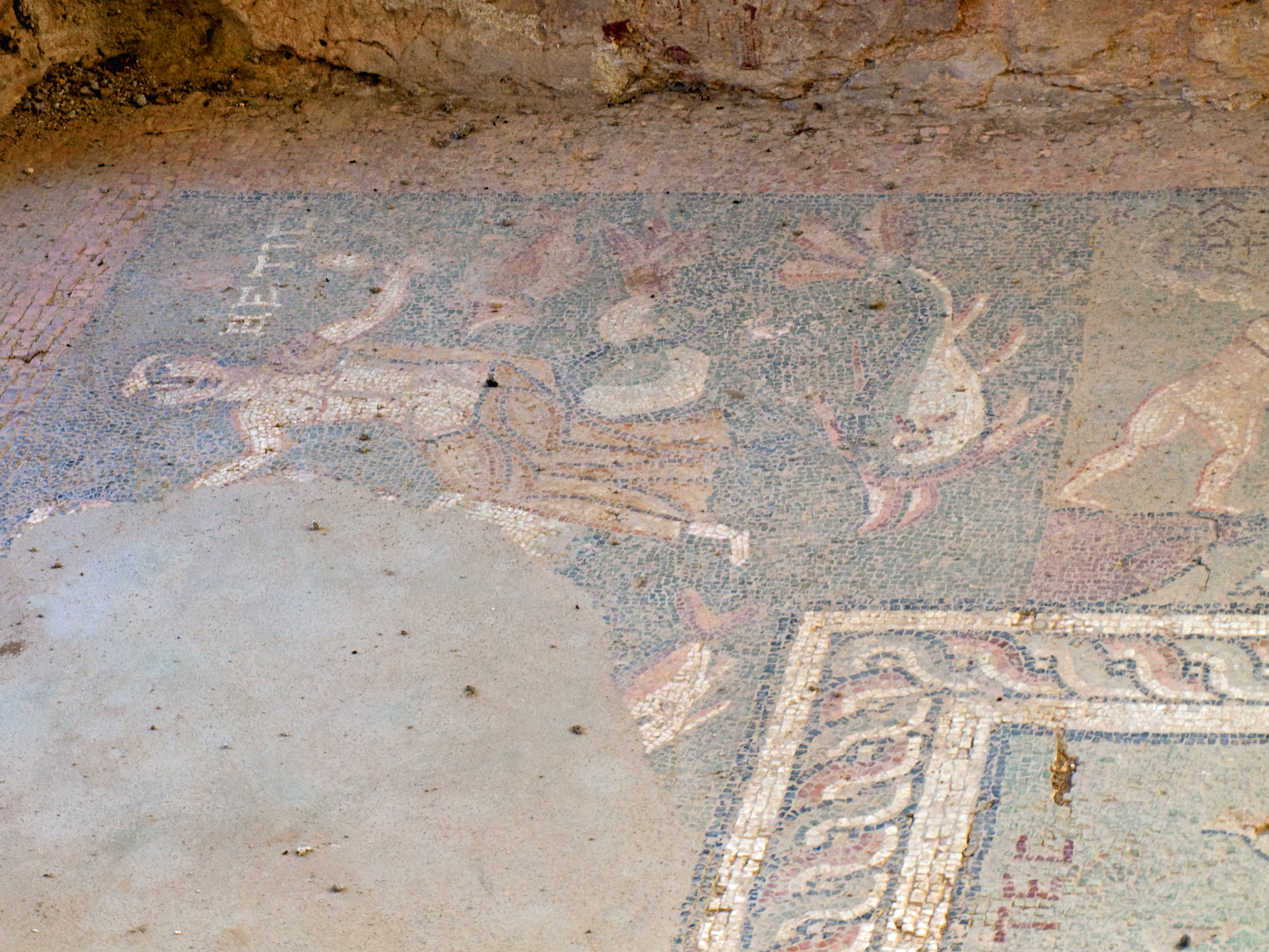 Mosaic, bathhouse of Garni, Armenia.